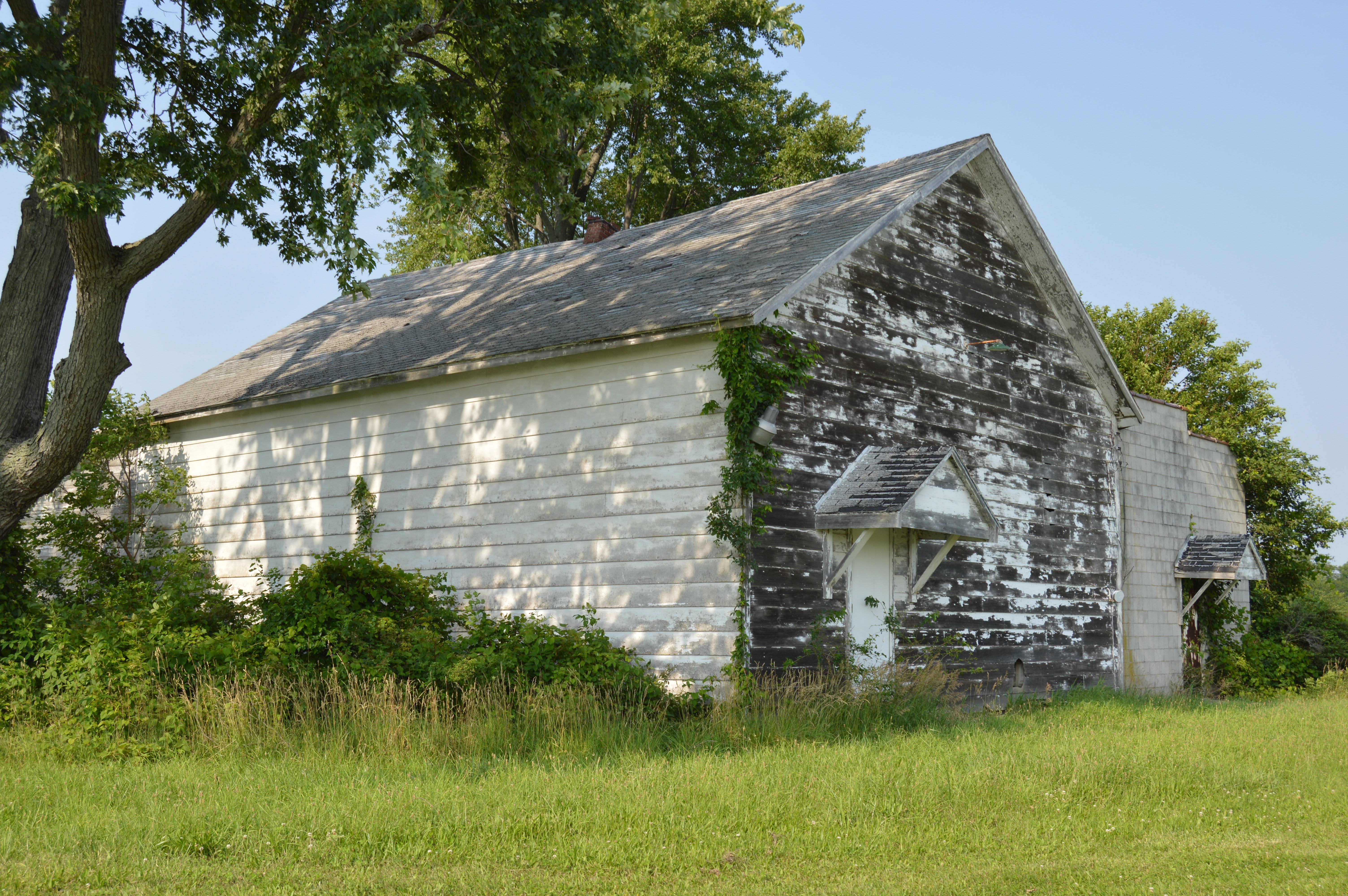 Front and western side of the old (abandoned?) grange hall on the northeastern corner of the junction of Township Roads 149 and 154 south of Mount Blanchard in Delaware Township, Hancock County, Ohio, United States.